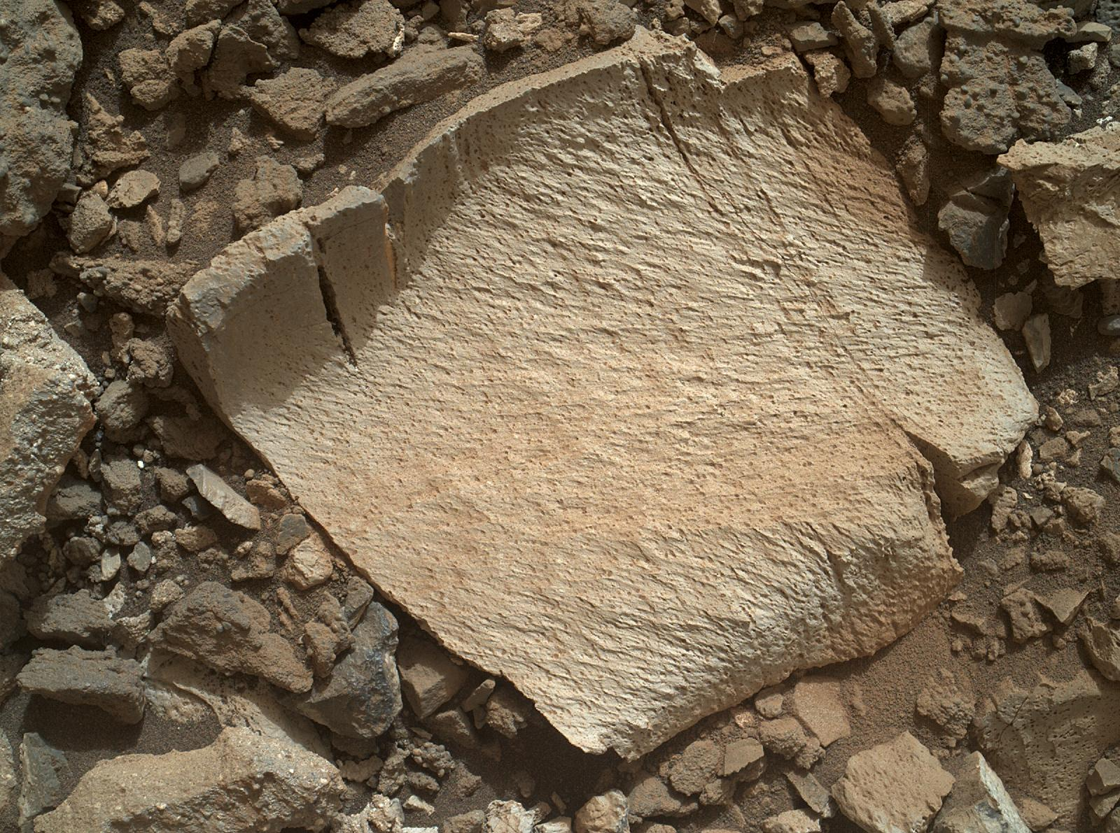 PIA19828: High-Silica 'Lamoose' Rock A rock fragment dubbed "Lamoose" is shown in this picture taken by the Mars Hand Lens Imager (MAHLI) on NASA's Curiosity rover. Like other nearby rocks in a portion of the "Marias Pass" area of Mt. Sharp, Mars, it has unusually high concentrations of silica. The high silica was first detected in the area by the Chemistry & Camera (ChemCam) laser spectrometer. This rock was targeted for follow-up study by the MAHLI and the arm-mounted Alpha Particle X-ray Spectrometer (APXS). Silica is a rock-forming compound containing silicon and oxygen, commonly found on Earth as quartz. High levels of silica could indicate ideal conditions for preserving ancient organic material, if present, so the science team wants to take a closer look. The rock is about 4 inches (10 centimeters) across. It is fine-grained, perhaps finely layered, and etched by the wind. The image was taken on the 1,041st Martian day, or sol, of the mission (July 11, 2015). MAHLI was built by Malin Space Science Systems, San Diego. NASA's Jet Propulsion Laboratory, a division of the California Institute of Technology in Pasadena, manages the Mars Science Laboratory Project for the NASA Science Mission Directorate, Washington. JPL designed and built the project's Curiosity rover. More information about Curiosity is online at and